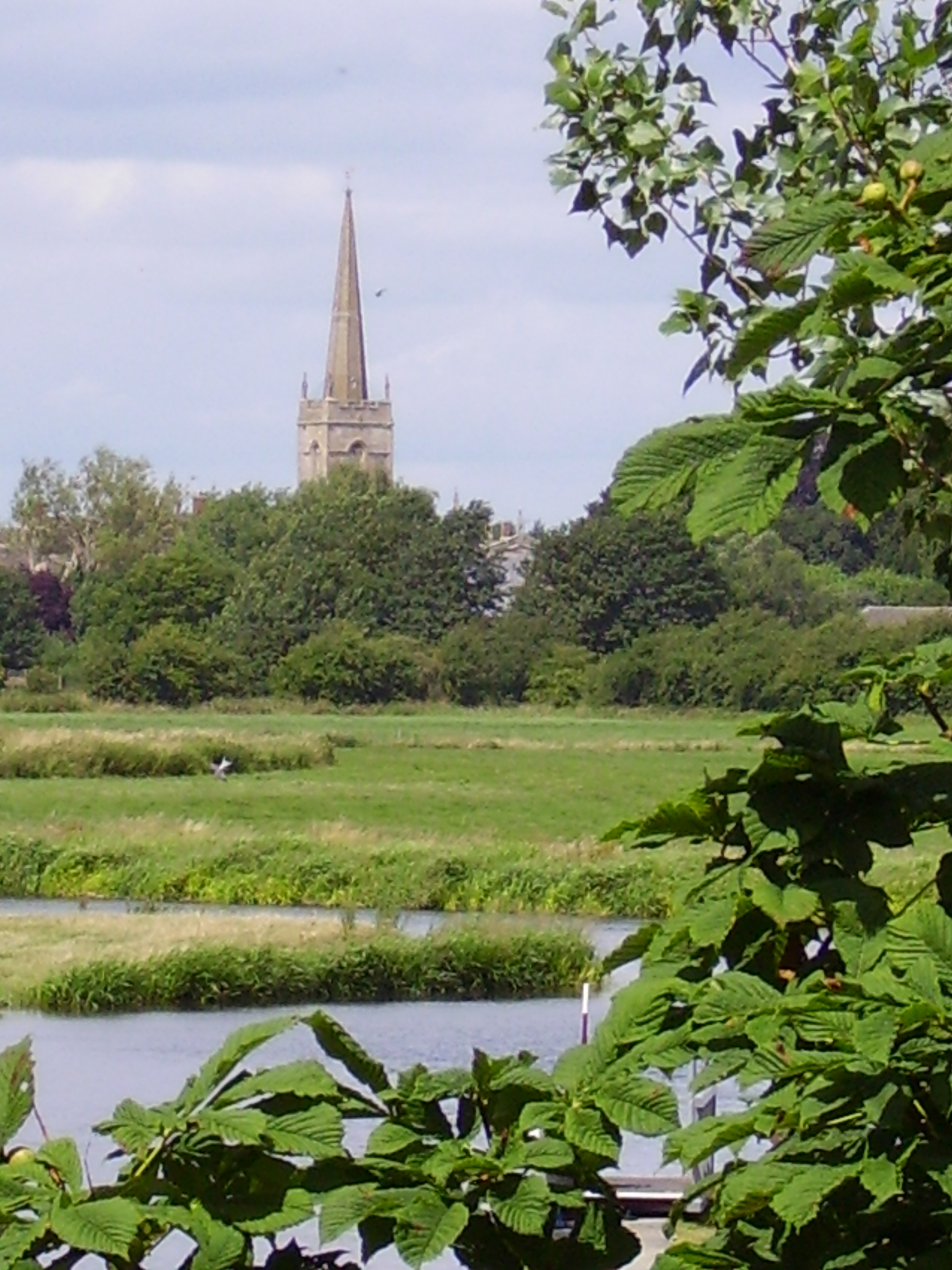 Photographer: User:Ballista